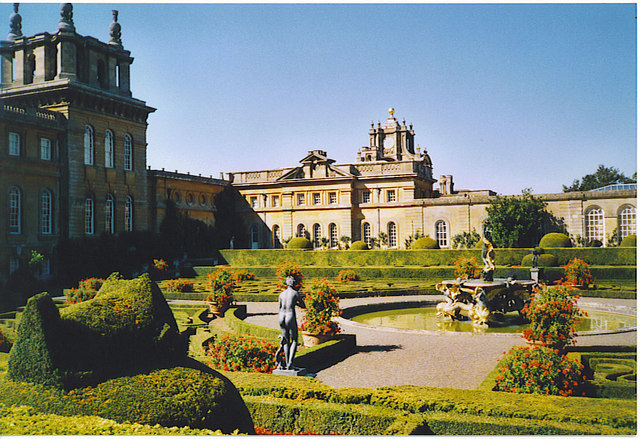 Blenheim Palace, Italian Garden. On the east side of the palace, with formal knot garden style of low box hedges and gilded fountain at its centre.